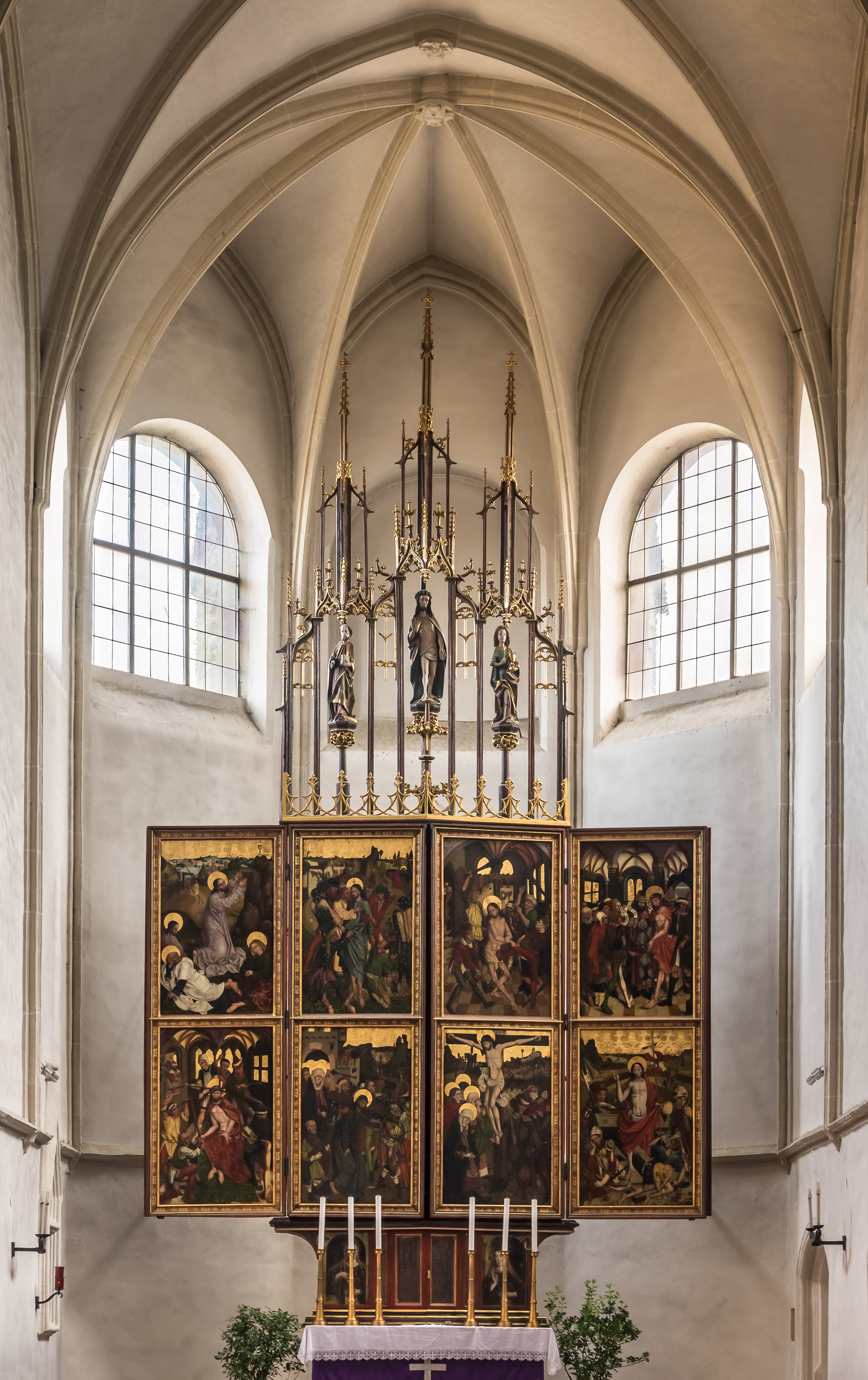 Winged altar at the parish- and pilgrimage church Maria Laach am Jauerling, Lower Austria. View for Sundays with closed inner wings. Anonymous master, 1480.